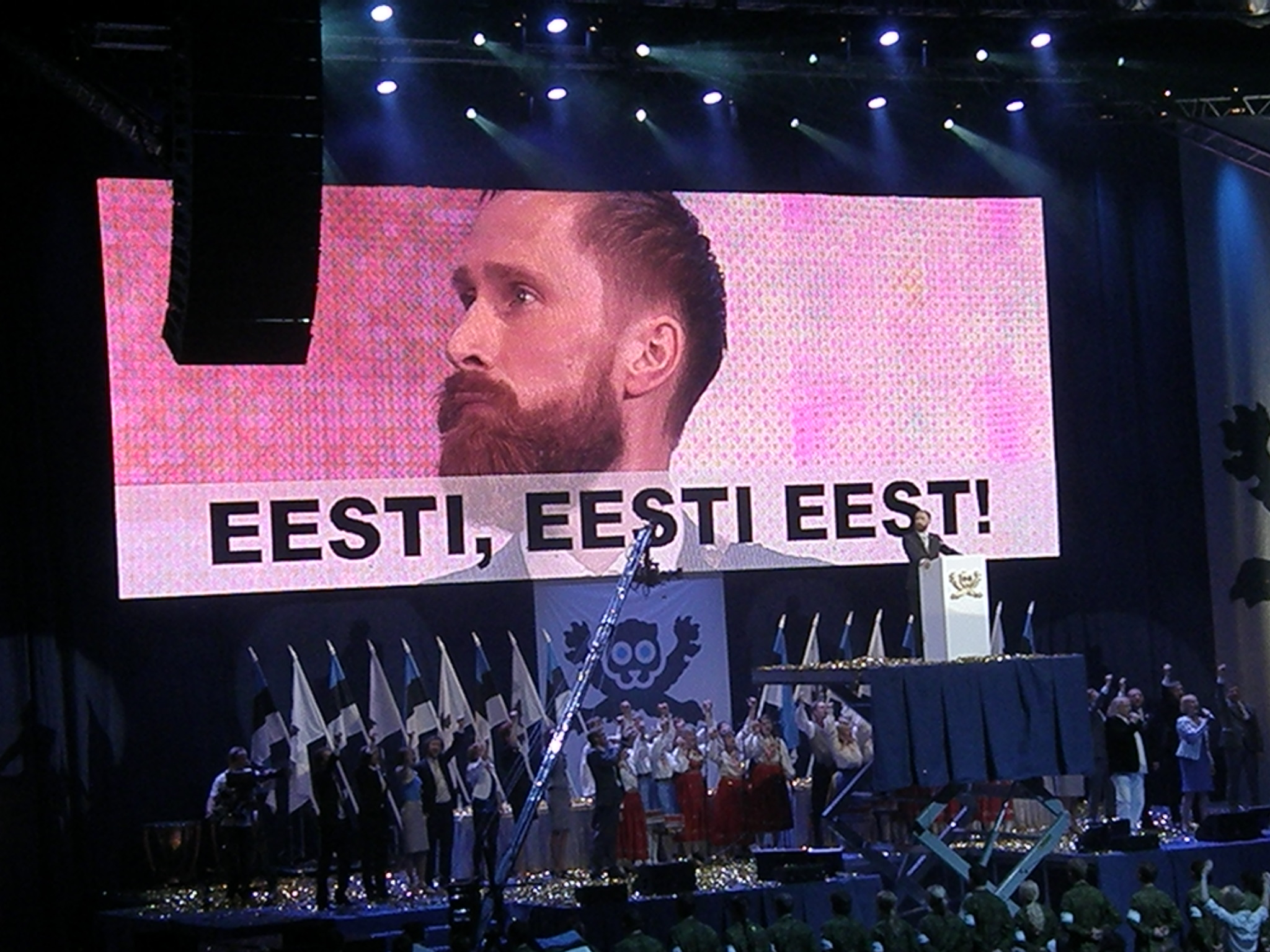 Tiit Ojasoo at Ühtne Eesti suurkogu